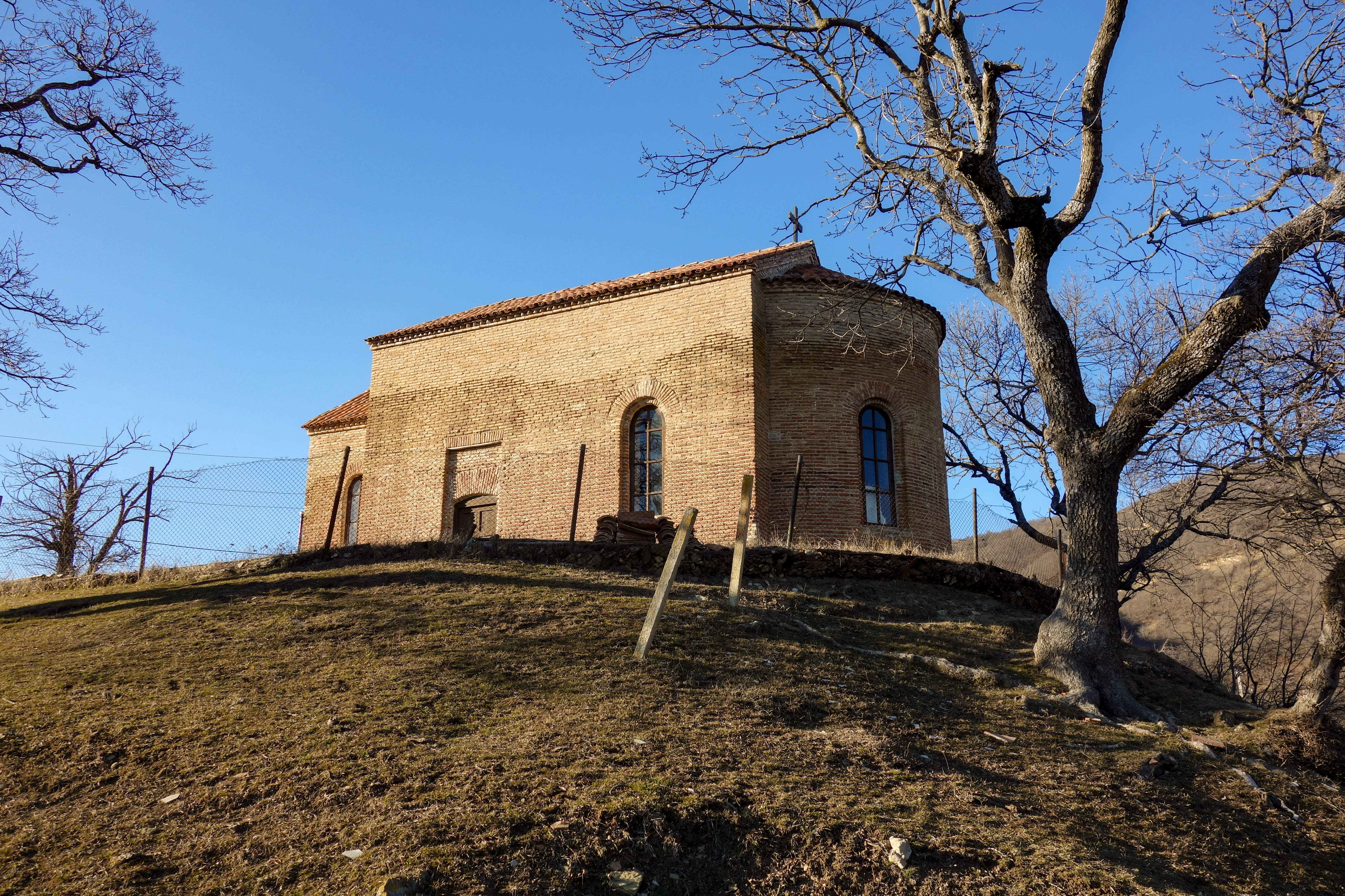 St. George Church, Mskhaldidi, Mtskheta District, Georgia